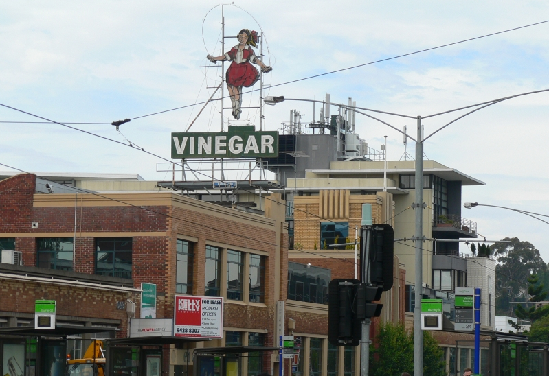 Victoria Street, Abbotsford in Melbourne with the famous Skipping Girl neon sign.